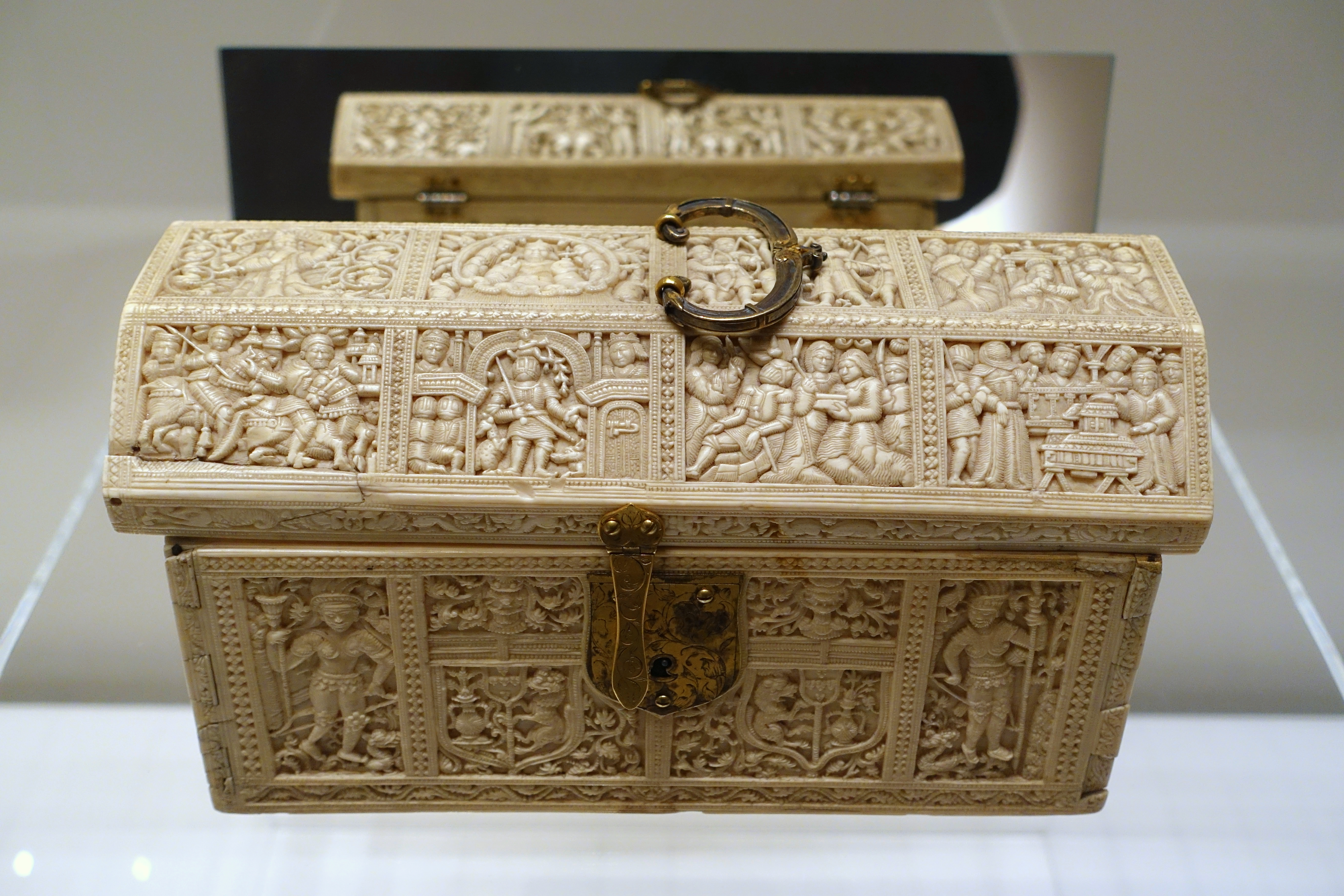 Exhibit in the Ethnological Museum, Berlin, Germany.